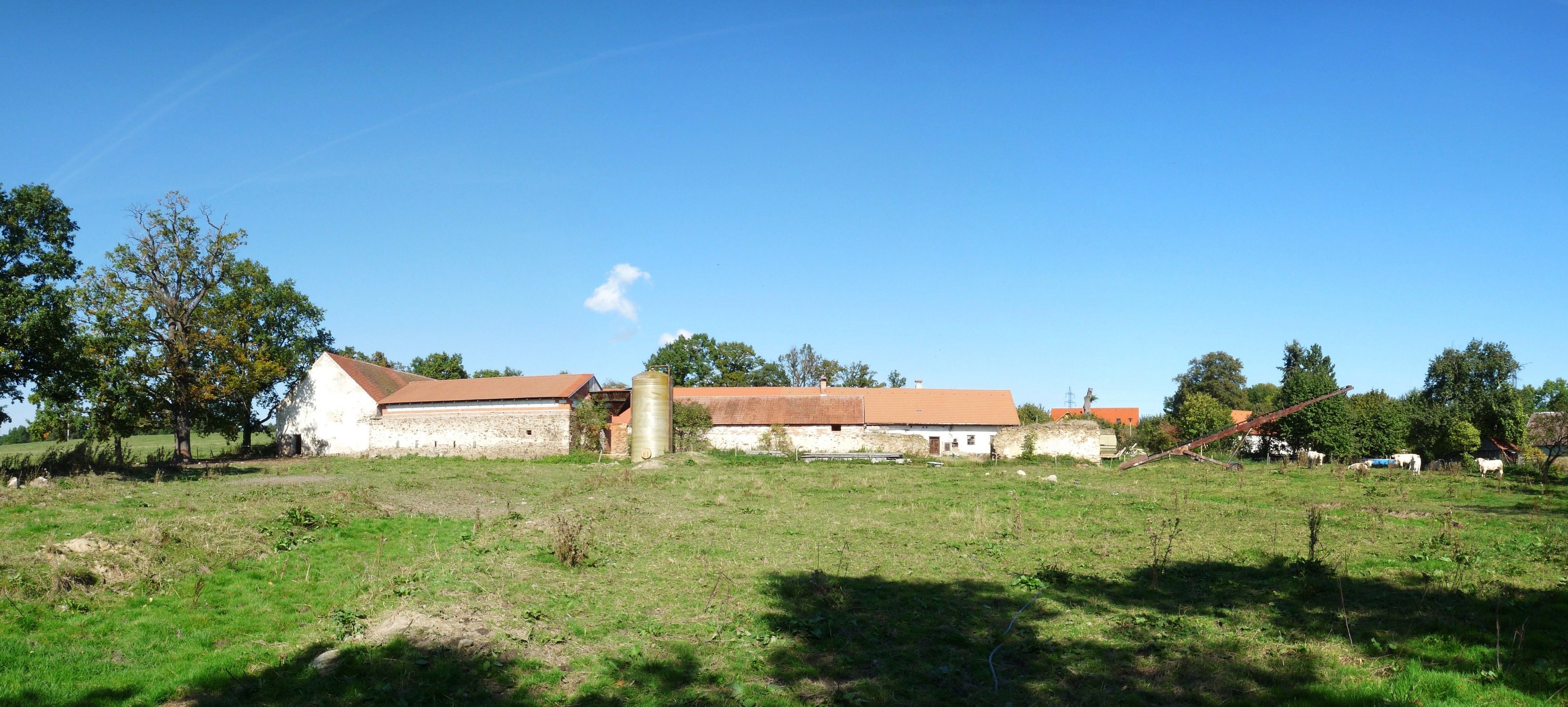 Farmhouse, house No 2 in the village of Libív, České Budějovice District, South Bohemian Region, Czech Republic.